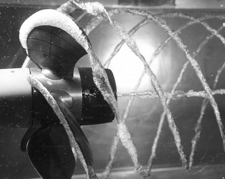 Cavitation generated by a water propeller